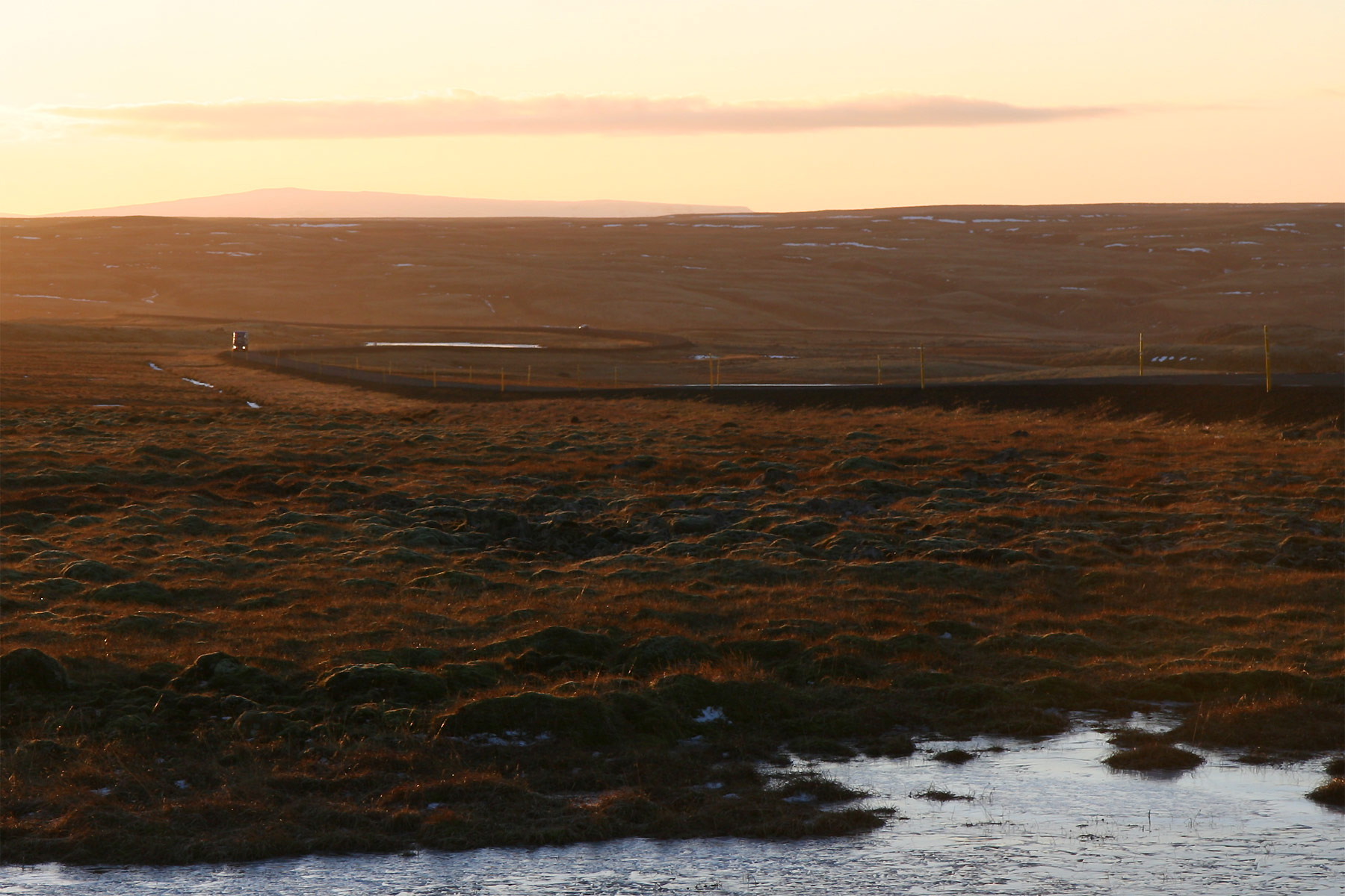 South back down the ringroad. Holtavörðuheiði, November 21 10:45 Iceland, November 2007 Photo by me user debivort (or friend, with permission given to upload and license freely).